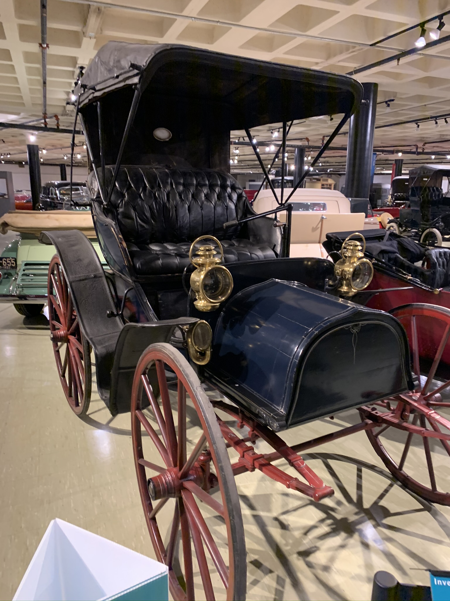 1908 Columbus at Crawford Auto-Aviation Museum